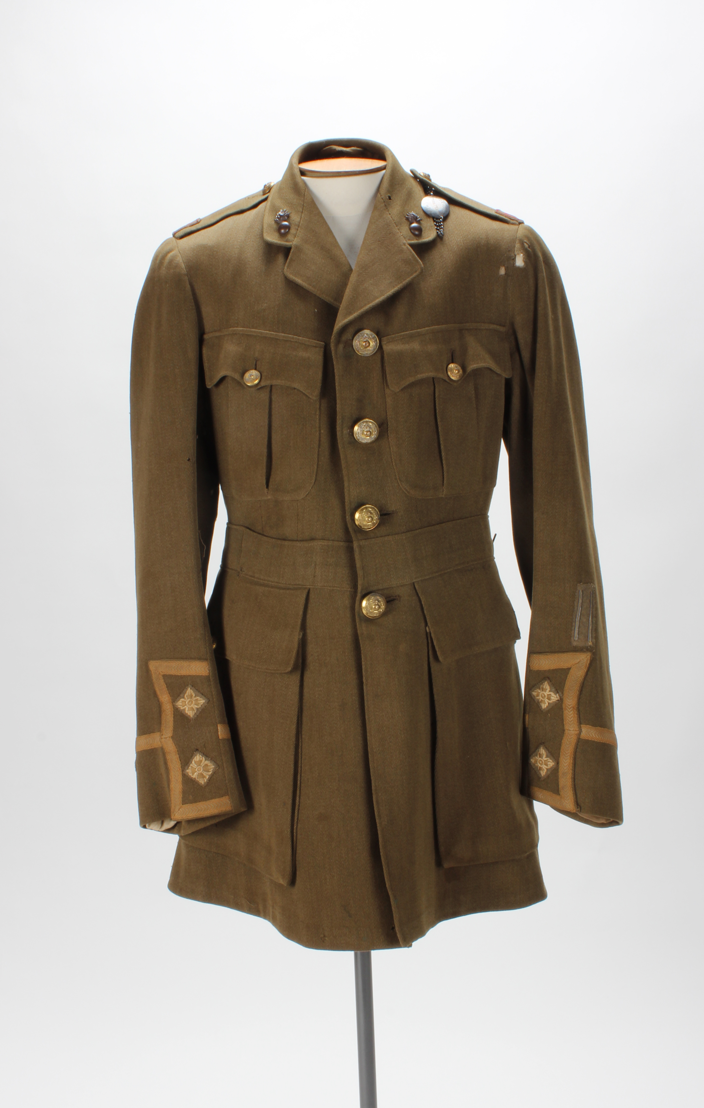 Uniform jacket, Lieutenant, 7th London Regiment, WW1; worn by Lt. PD Evershed (with ID disc attached)